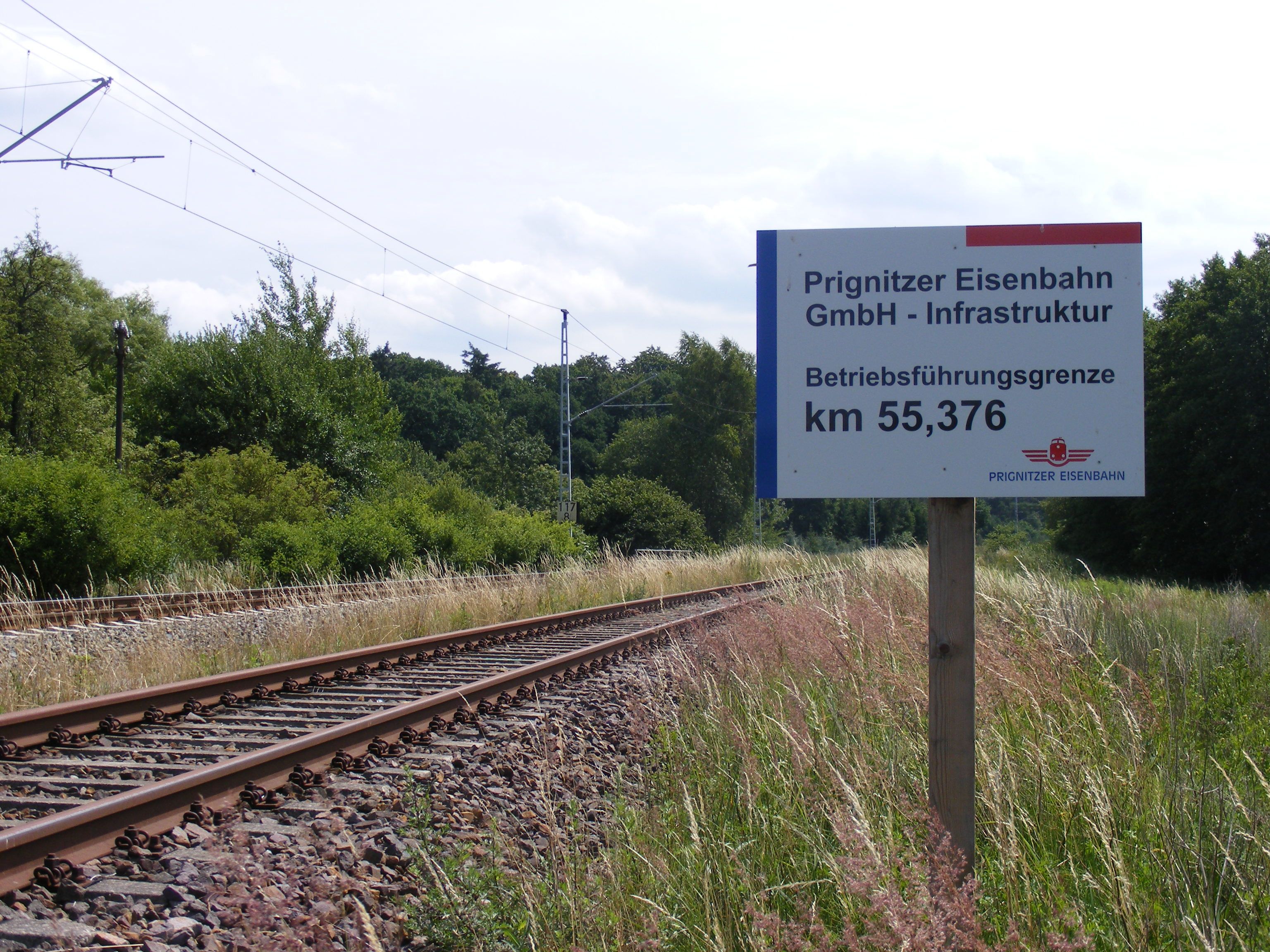 start of section owned by Prignitzer Eisenbahn of railway line Güstrow—Meyenburg close to Priemerburg